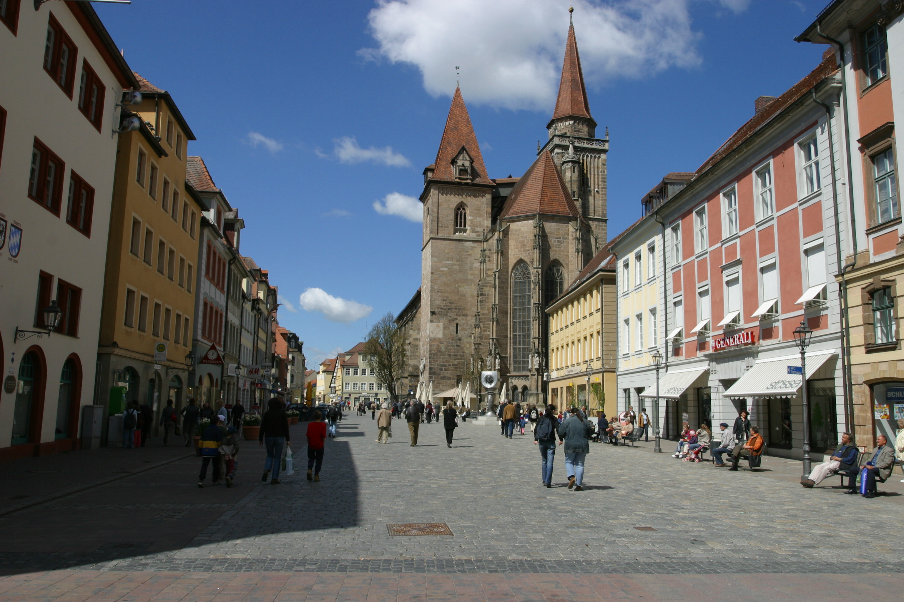 Picture of St. Johannis Church (Ansbach - Germany)